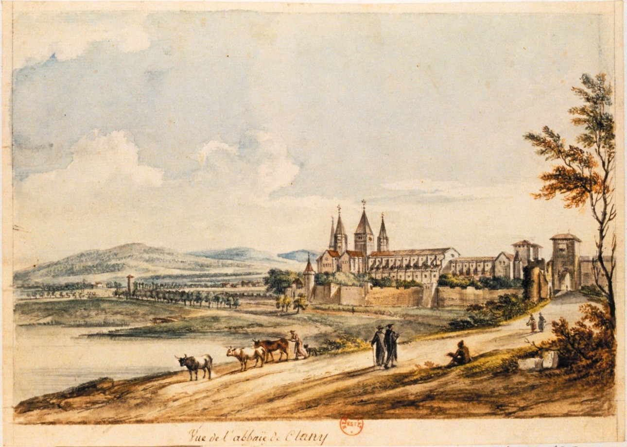 Jean Baptiste Lallemand (1710-1805) View of Cluny Abbey. Watercolor. BNF, Paris